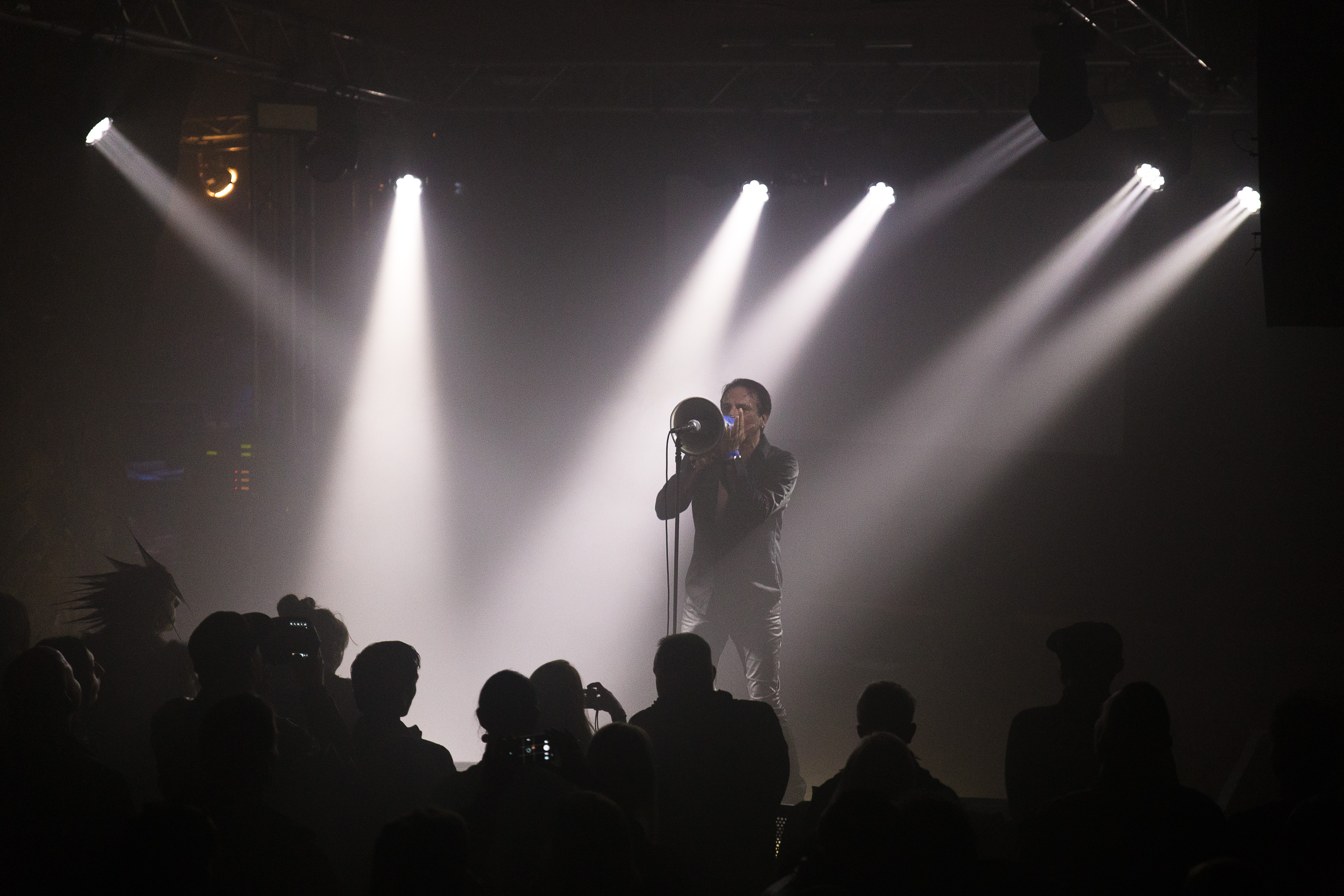 The Belgian electro-industrial band Dive at the Kasematten-Festival 2016 in Langenstein/Germany.